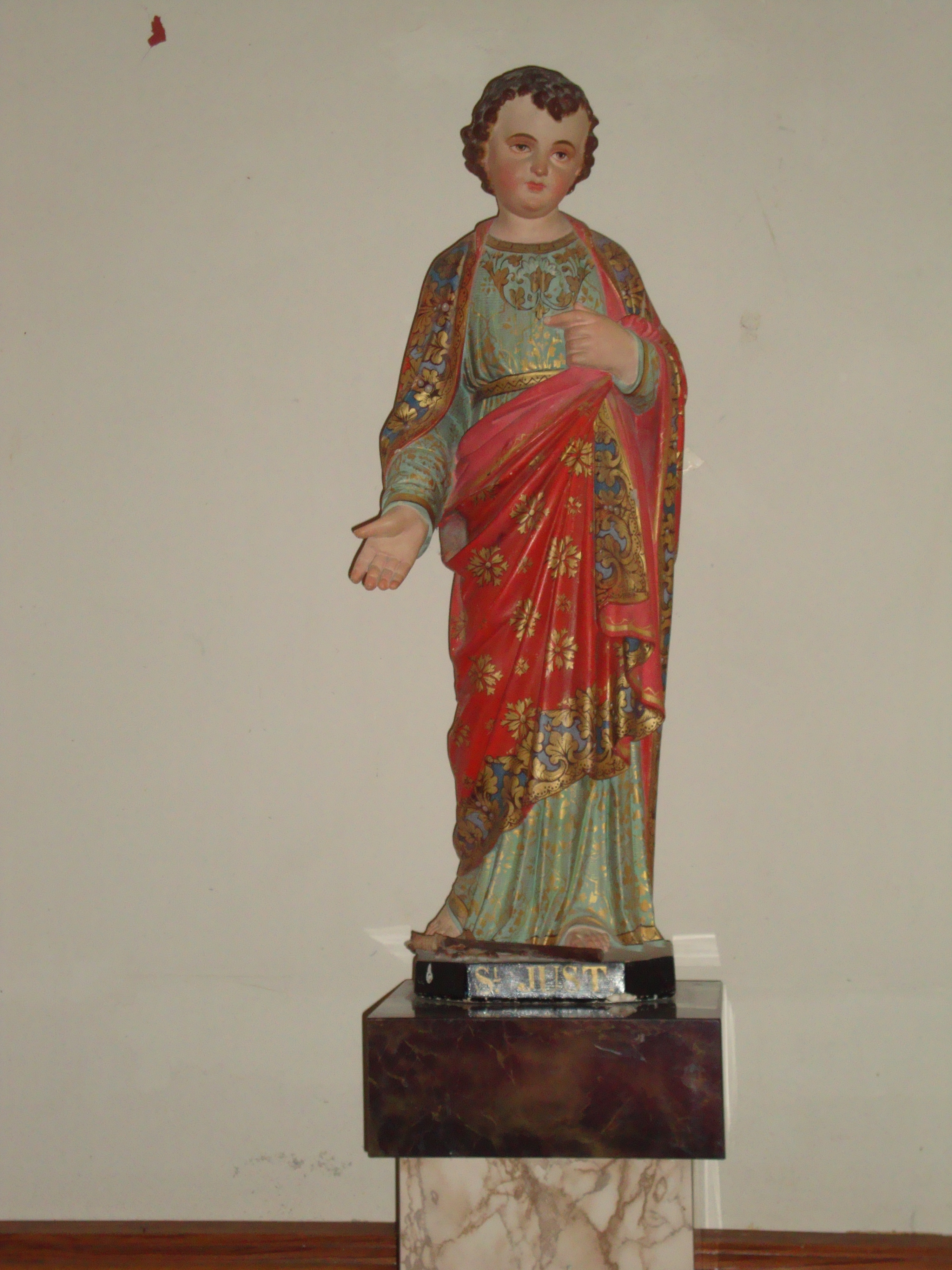 Lichos (Pyr-Atl, Fr) statue de Saint Just